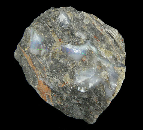 Opal (Var.: Precious Opal) Locality: Gracios O Dios Mine, Honduras (Locality at ) Size: 3.5 x 2.0 x 2.1 cm. Opal is one of those minerals that look as beautiful and impressive when it is opaque as when it is water clear. The amazing range of this material (considering the simplistic chemistry) makes it an interesting mineral, and that's saying a lot considering the species does not even have any crystal form. Recently, I obtained a small parcel of precious Opal from Honduras, The Opal from this Gracious O Dios Mine have been mined for over 150 years, and have proven to be some of the more attractive yet lesser known from the Western Hemisphere. This piece features a very attractive little patch of multicolor Opal on matrix which shows flashes of red, gold, orange, blue and green. Despite the smaller size, this piece has great color. Ex. Brian Kosnar Collection.